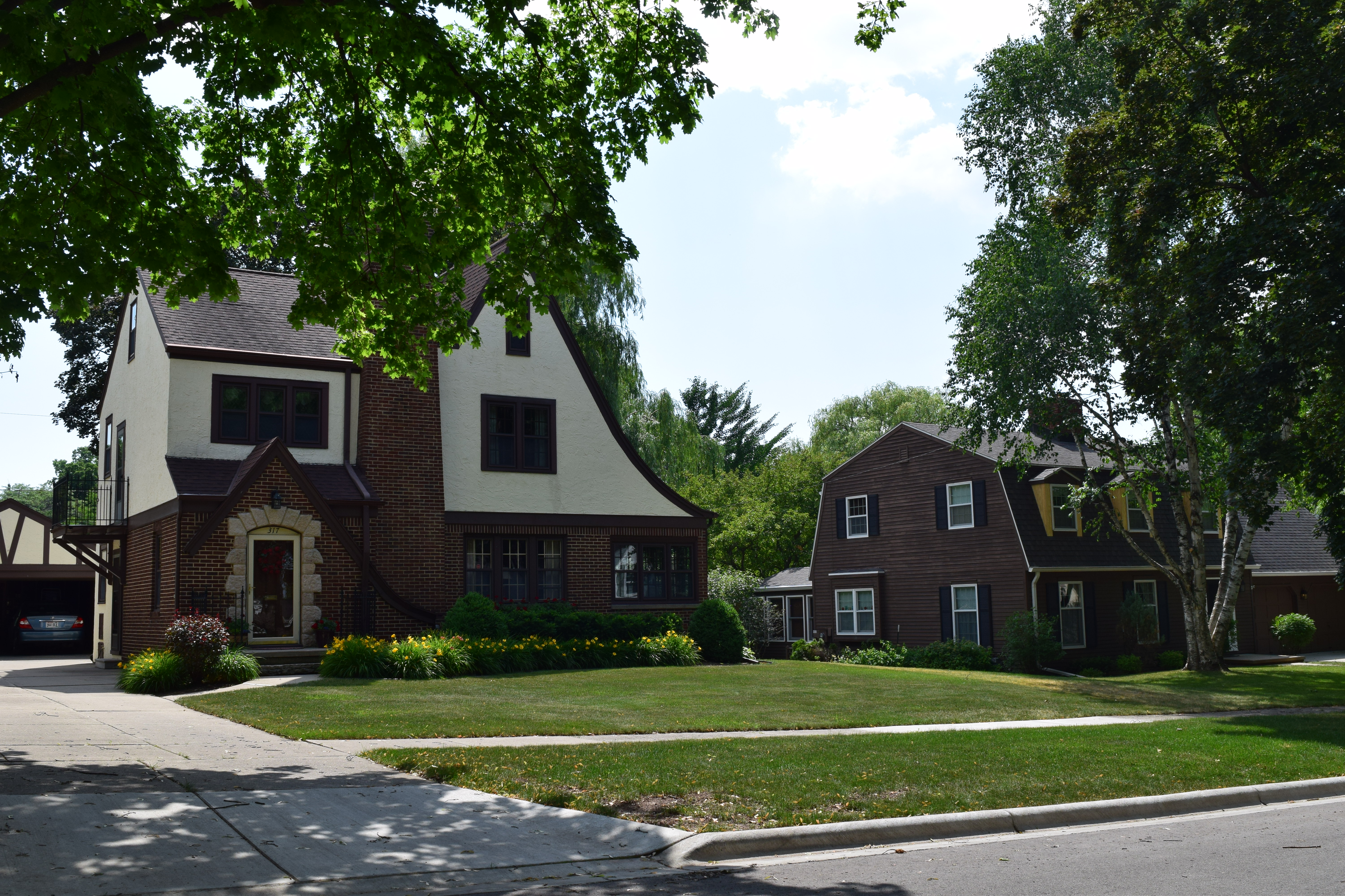 The houses at 317 and 325 Miramar Drive in Allouez, Wisconsin. The house is part of the Miramar Drive Residential Historic District, which is listed on the National Register of Historic Places.